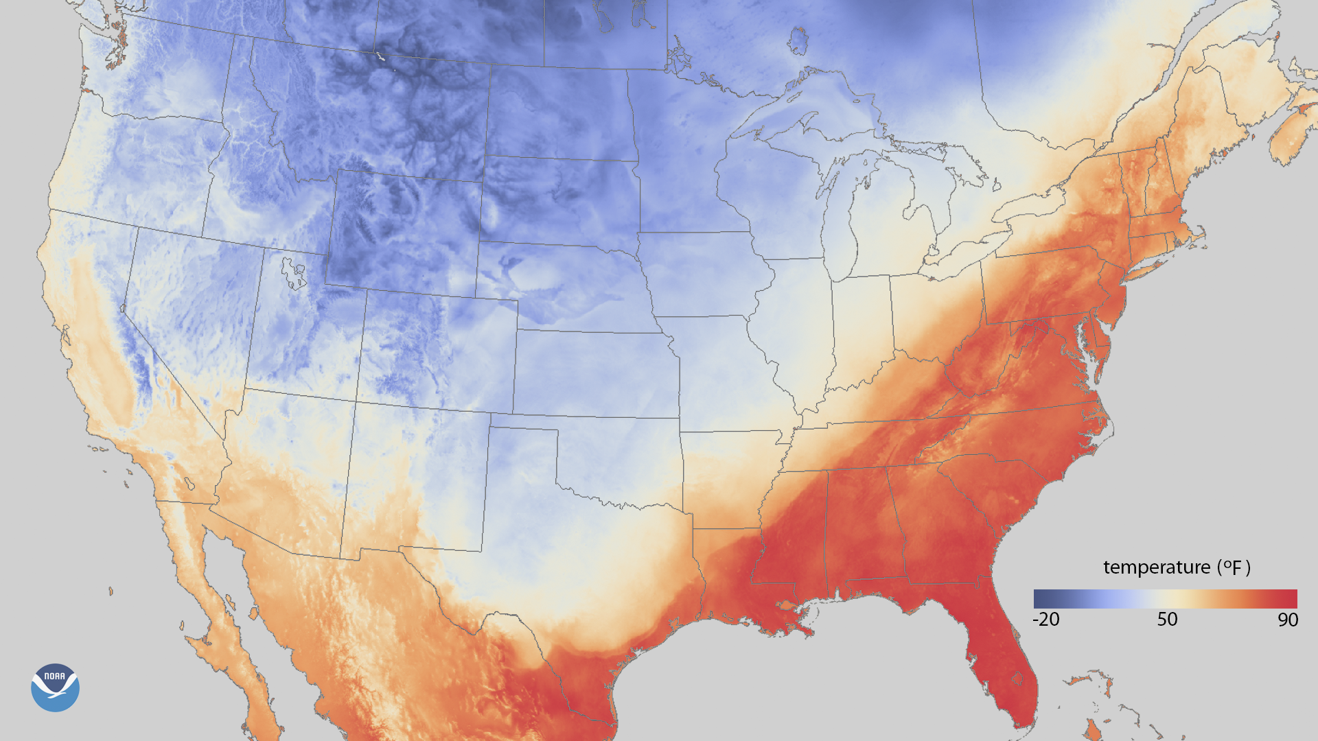 Much like last February, unseasonable warmth spread across the southern and eastern United States this week, with temperatures reaching levels more typical of April or early May. This map shows maximum surface temperatures (at 2 meters) across the United States on Wednesday, February 21, 2018, using data from NOAA's Real-Time Mesoscale Analysis. While the western U.S. has been colder than average, temperatures climbed as high as the lower 80s (°F) across the South and the Mid-Atlantic, with 70-degree temperatures reaching as far north as northern New England. Several cities set new records for their warmest February temperatures ever recorded. Pittsburgh, Pennsylvania and Cincinnati, Ohio reached 78 and 79 degrees (°F), respectively, on February 20, while the temperature in New York City soared to 78 degrees on February 21, the National Weather Service reported. Boston, Massachusetts warmed to 72°F on February 21, one degree shy of its all-time February temperature record set just last year. On average, Boston's first 70-degree day typically does not occur until mid-April. Caption credit: NOAA